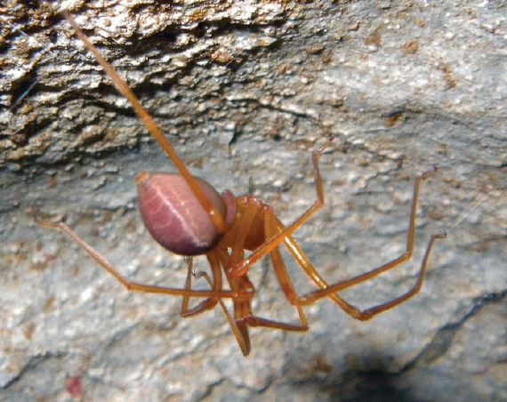 Trogloraptor marchingtoni (Female); Oregon